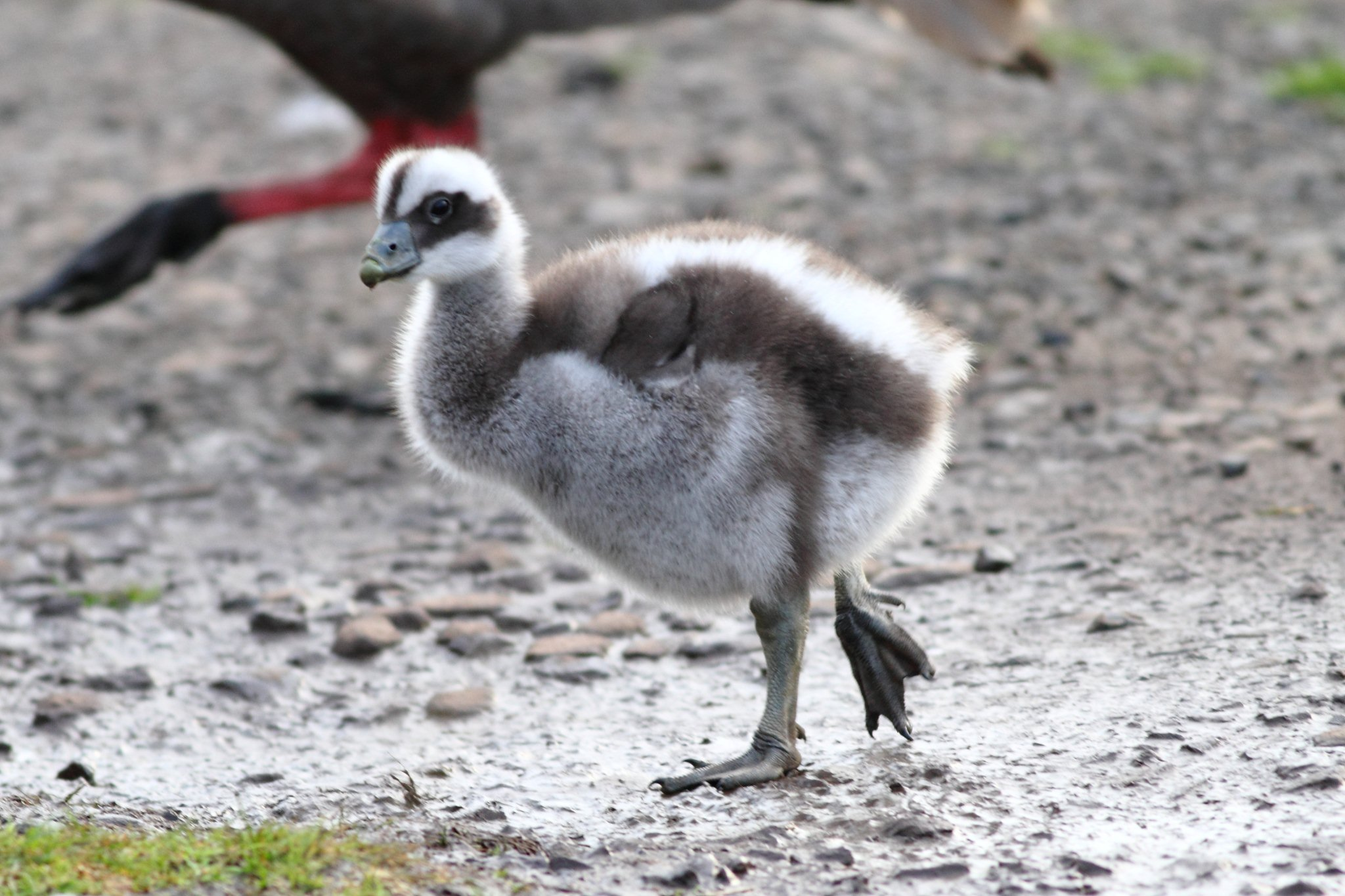 A Cape Barren Goose gosling on Phillip Island, Victoria, Australia.